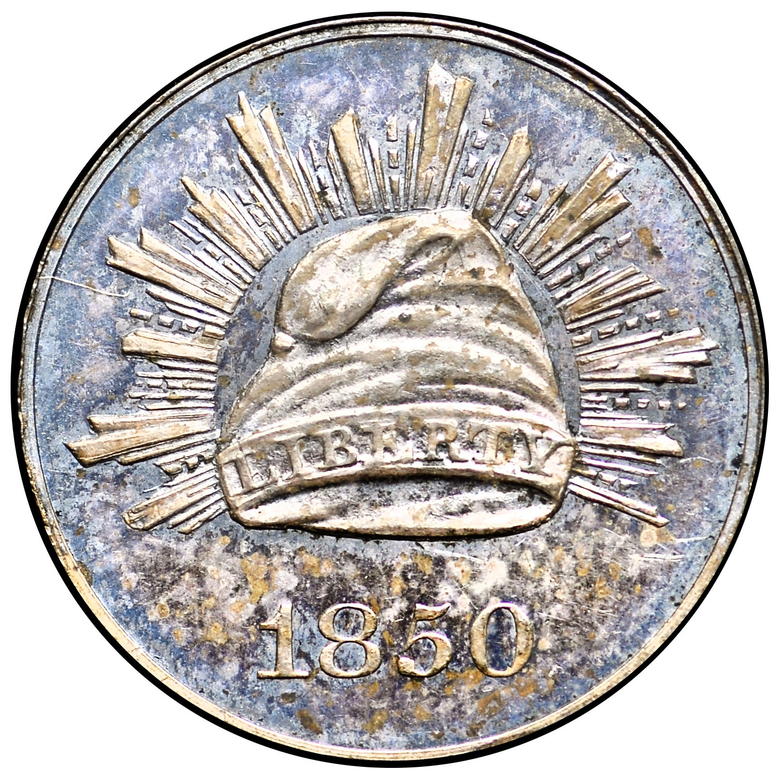 1850 P3CS Three Cent Silver (Judd-125 Original) (obv) (1184-3913)